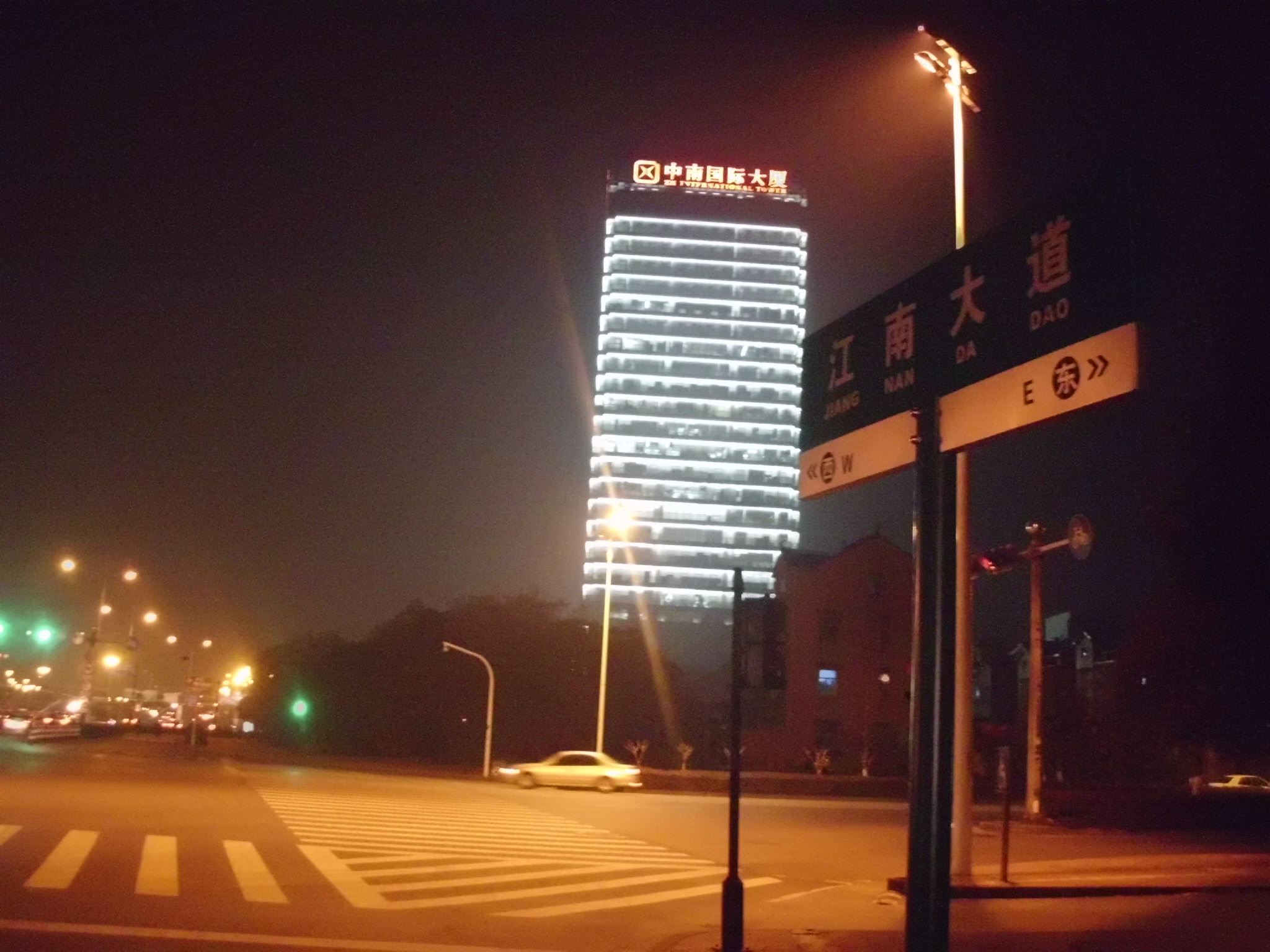 JIANG NAN AVE